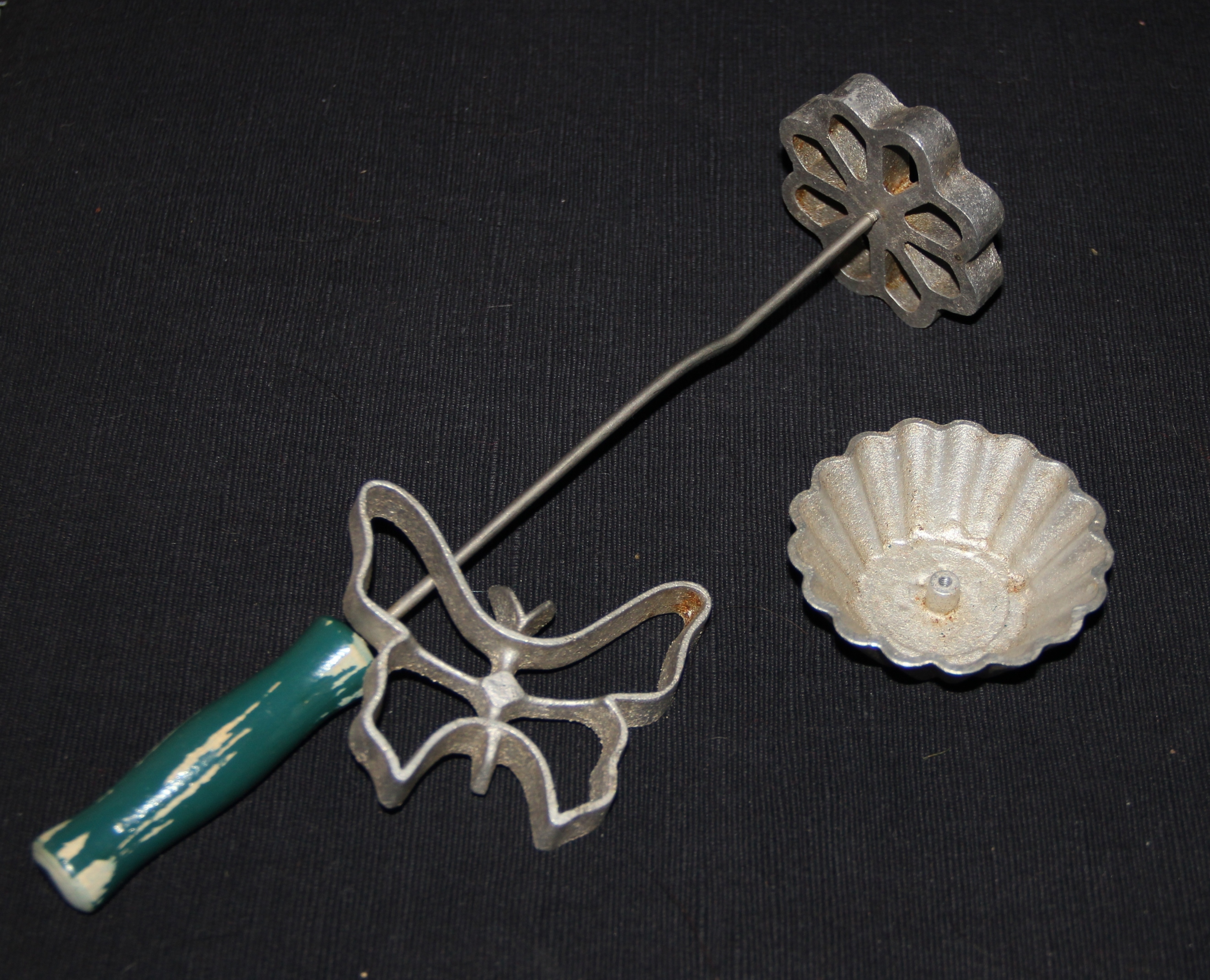 An old rosette mould